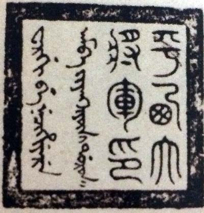 Seal from Qing China to Wu Sangui. The left part is in Manchu alphabet, the right part in chinese script